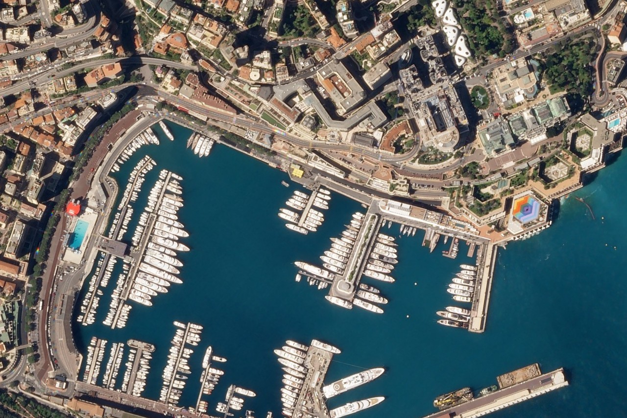 Circuit de Monaco is a street circuit laid out on the city streets of Monte Carlo and La Condamine around the harbour of the principality of Monaco. It is home to the Formula One Monaco Grand Prix, Formula E Monaco ePrix, and the Historic Grand Prix of Monaco. Image taken on April 1, 2018, by a Planet Labs SkySat satellite.